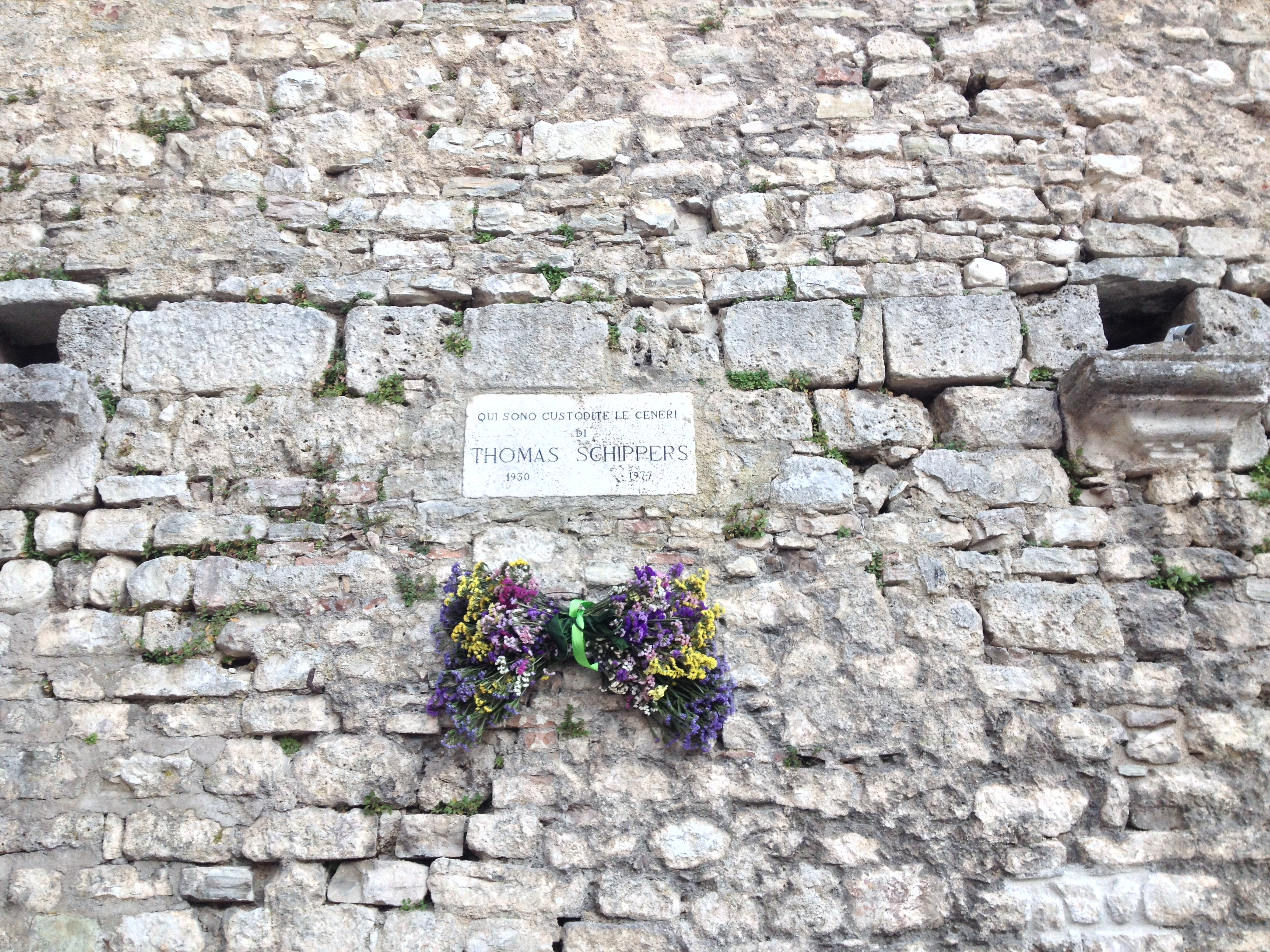 Tombstone on a wall of Piazza Duomo, in Spoleto, where the ashes of Thomas Schippers are kept